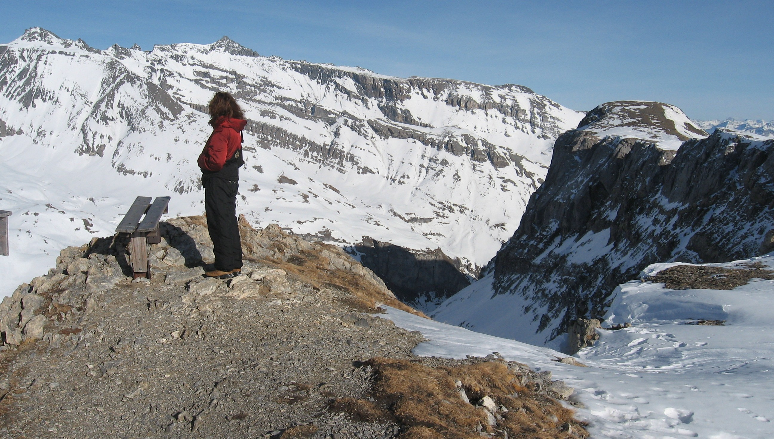 Fil de Cassons, Flims, is often dry even in winter, being a ridge where snow tends to get blown away